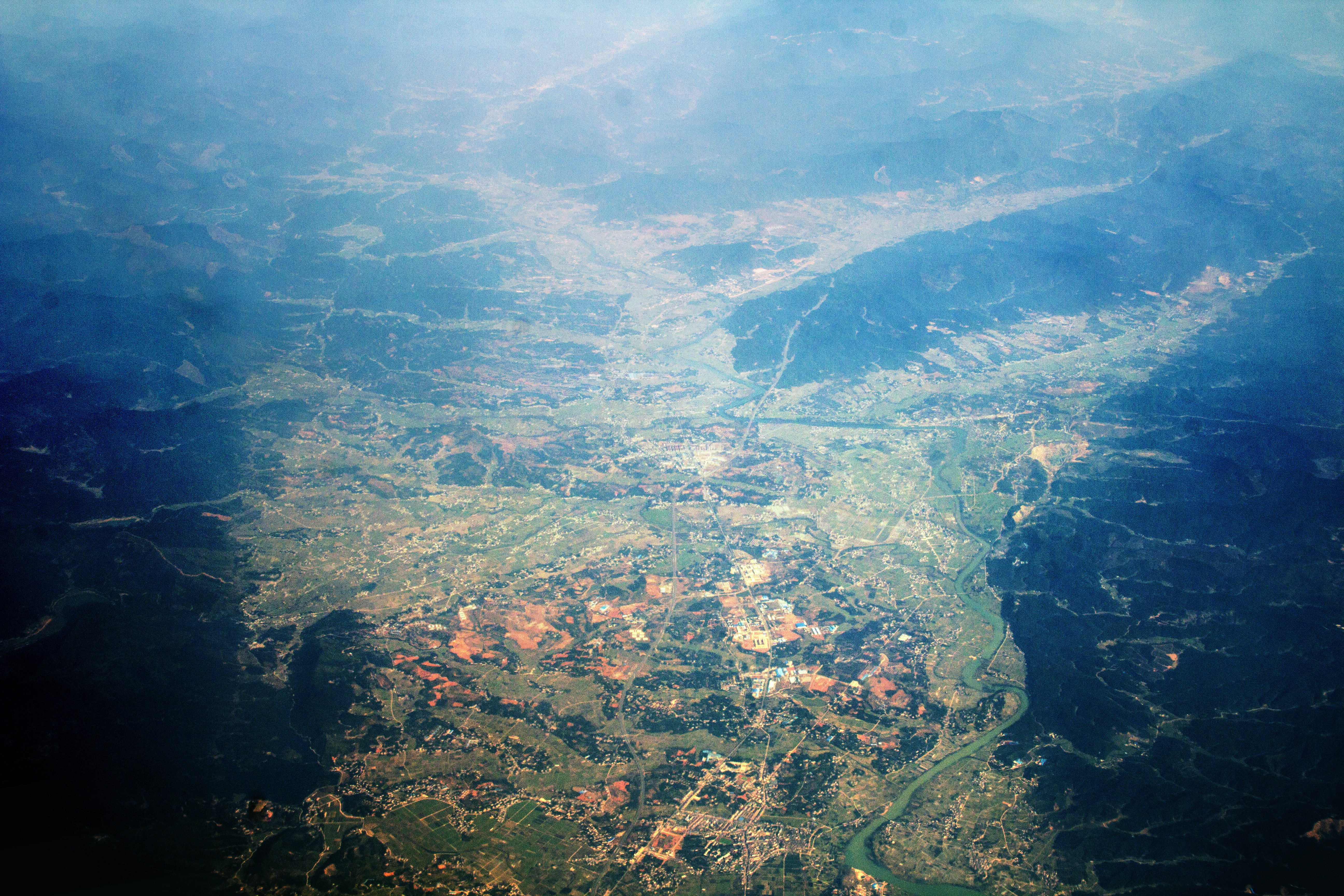 photo taken on plane